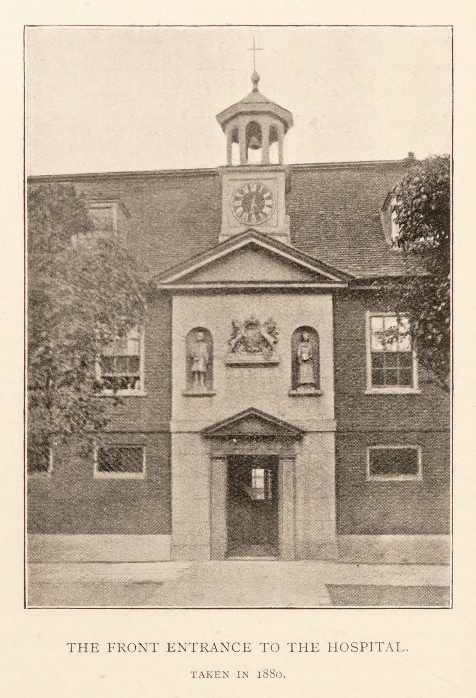 Grey Coat Hospital, front entrance. From: Day, Elsie Sarah (1902) An old Westminister endowment : being a history of the Grey Coat Hospital as recorded in the minute books, London: H. Rees